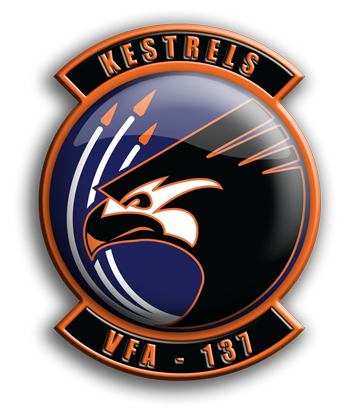 Insignia of the U.S. Navy Strike Fighter Squadron 137 (VFA-137) "Kestrels".